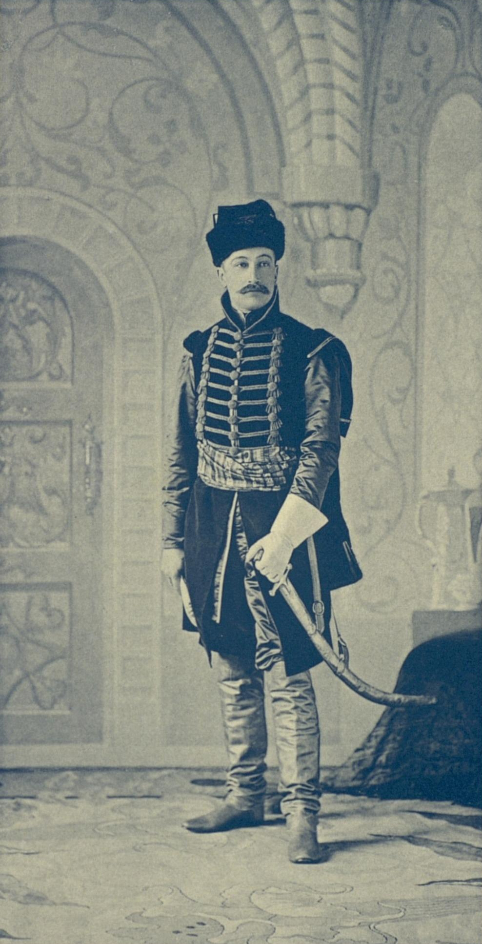 Vasiliy Alexandrovich Dolgorukov